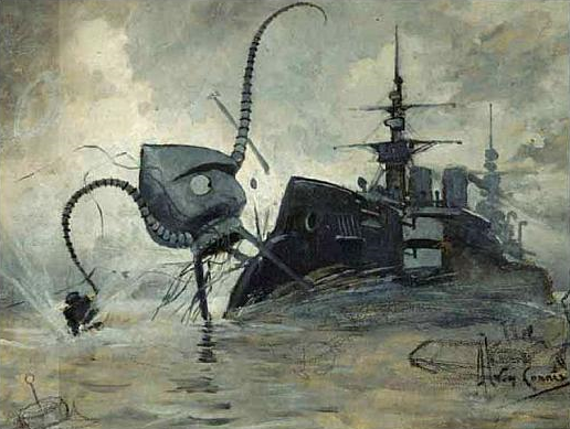 for the novel The War of the Worlds, showing a Martian fighting-machine battling with the warship Thunder Child.detail